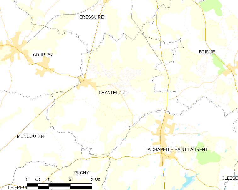 Map of French municipality Chanteloup